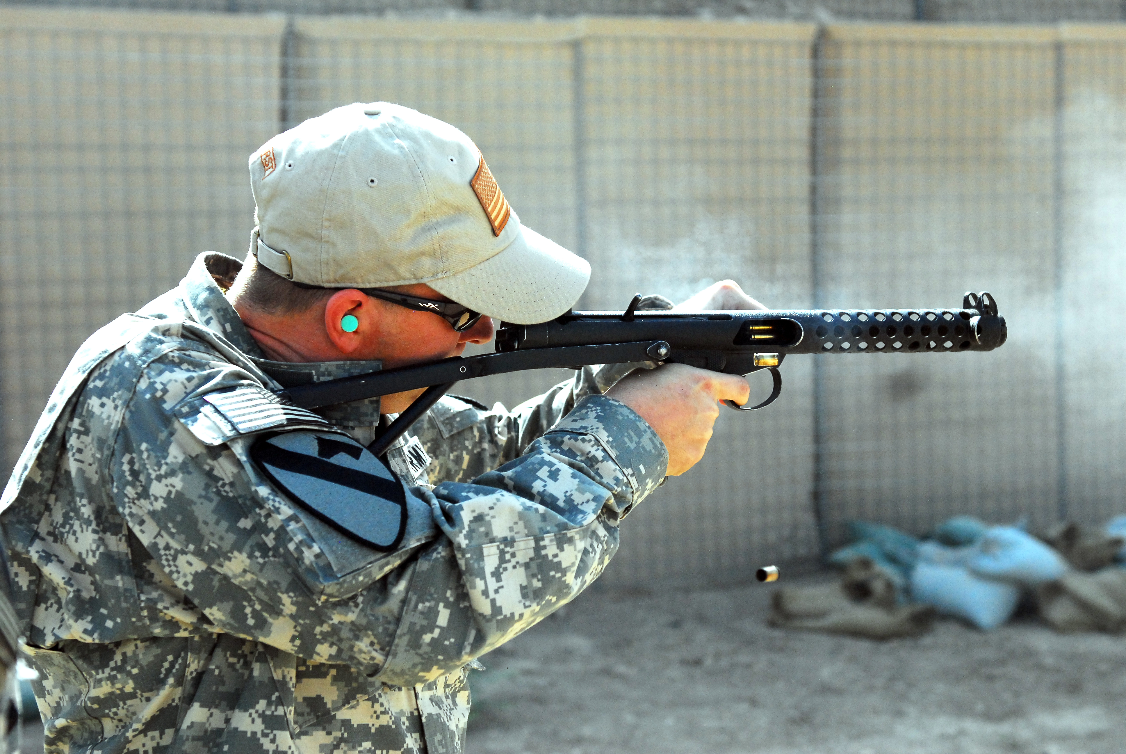 Sgt. John Hyland fires a World War II Sterling L2A3 (Mark 4) submachine gun Oct. 16, at a range on Victory Base Complex in Baghdad. The Charlotte, N.C., native suffered extensive pelvic and back injuries and lost his left leg below the knee in an improved explosive device attack on Sept. 11, 2007. He participated in Operation Proper Exit Oct. 11 to 17, a program that affords wounded combat veterans a chance to return to the places they served and were injured while serving in support of Operation Iraqi Freedom.